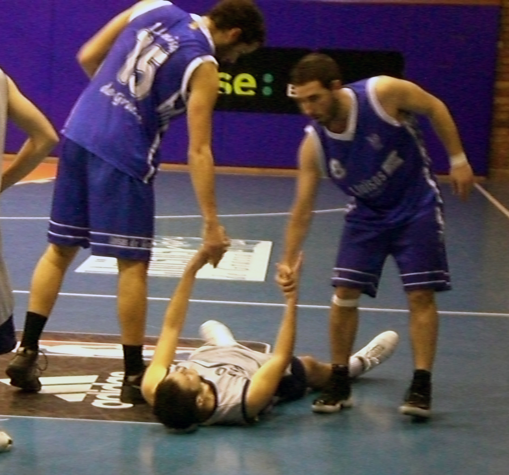 Players of LLuisos de Gracia basketball team